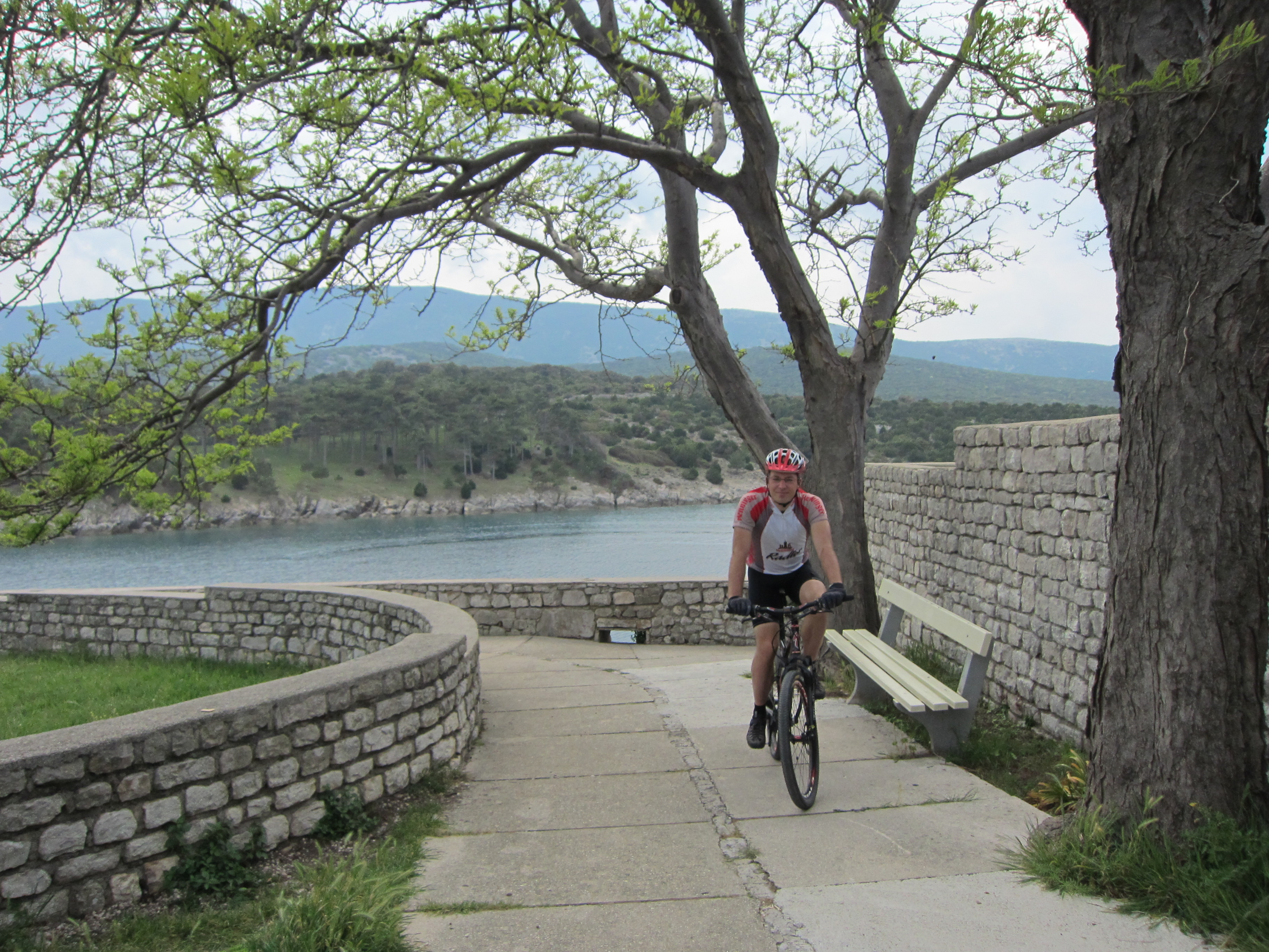 Osor on the border between the islands of Cres and Losinj, Croatia.